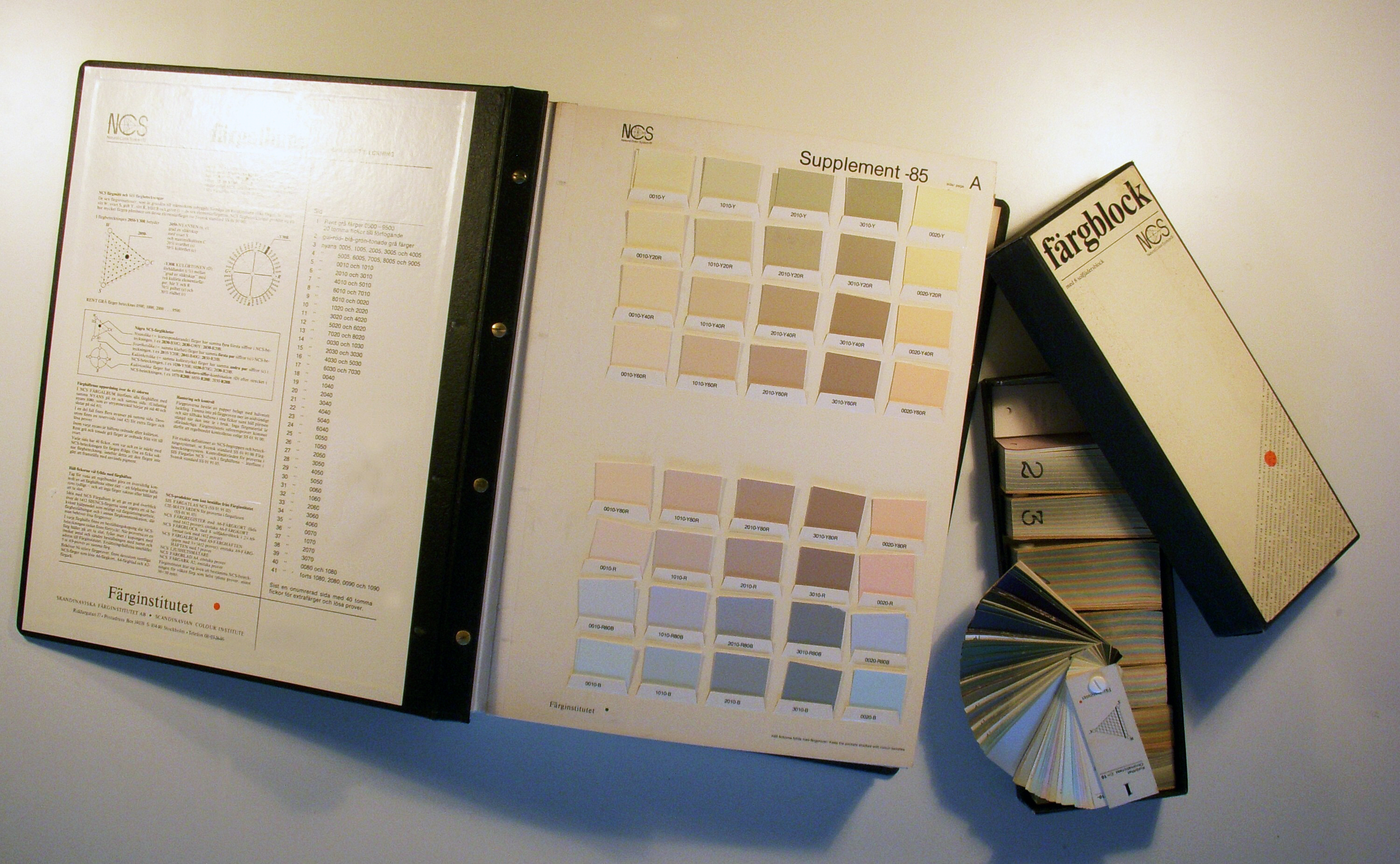 NCS colour atlas